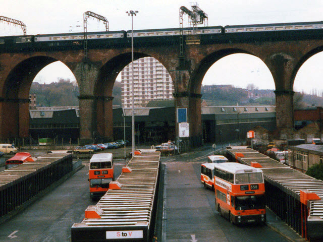 Stockport Bus Station, in Stockport, Greater Manchester, England.